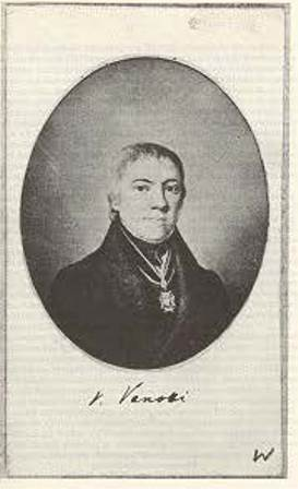 Johann Nepomuk von Vanotti (1777-1847), historian and Roman Catholic theologian